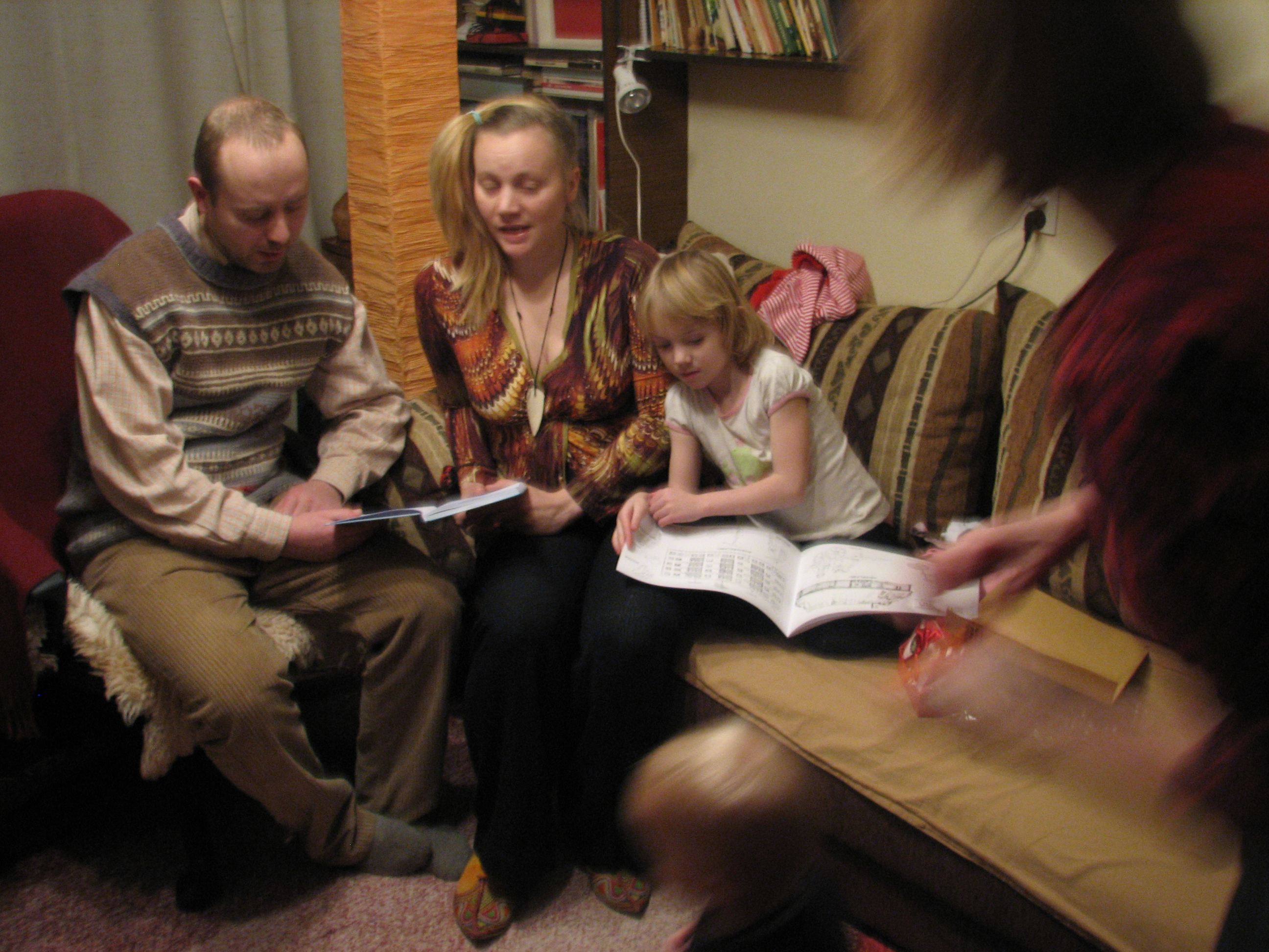 My family is singig christmas songs